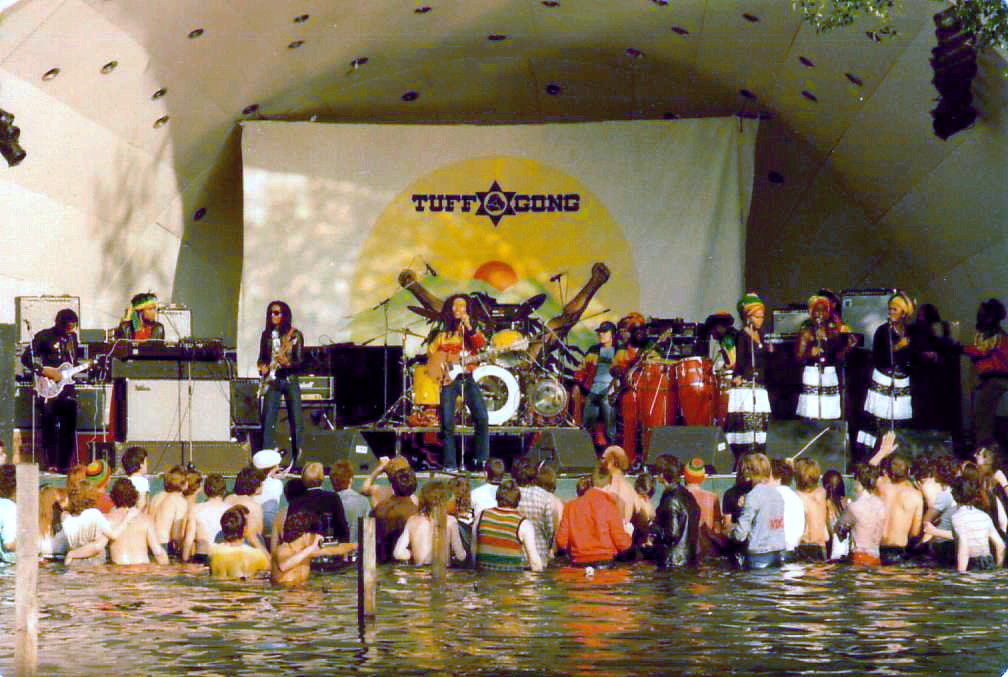 Bob Marley and The Wailers, The Summer of '80 Garden Party, Crystal Palace Concert Bowl.